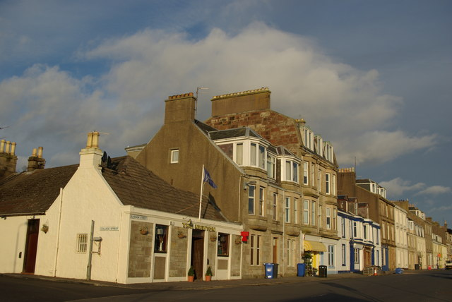 Glasgow Street, Millport